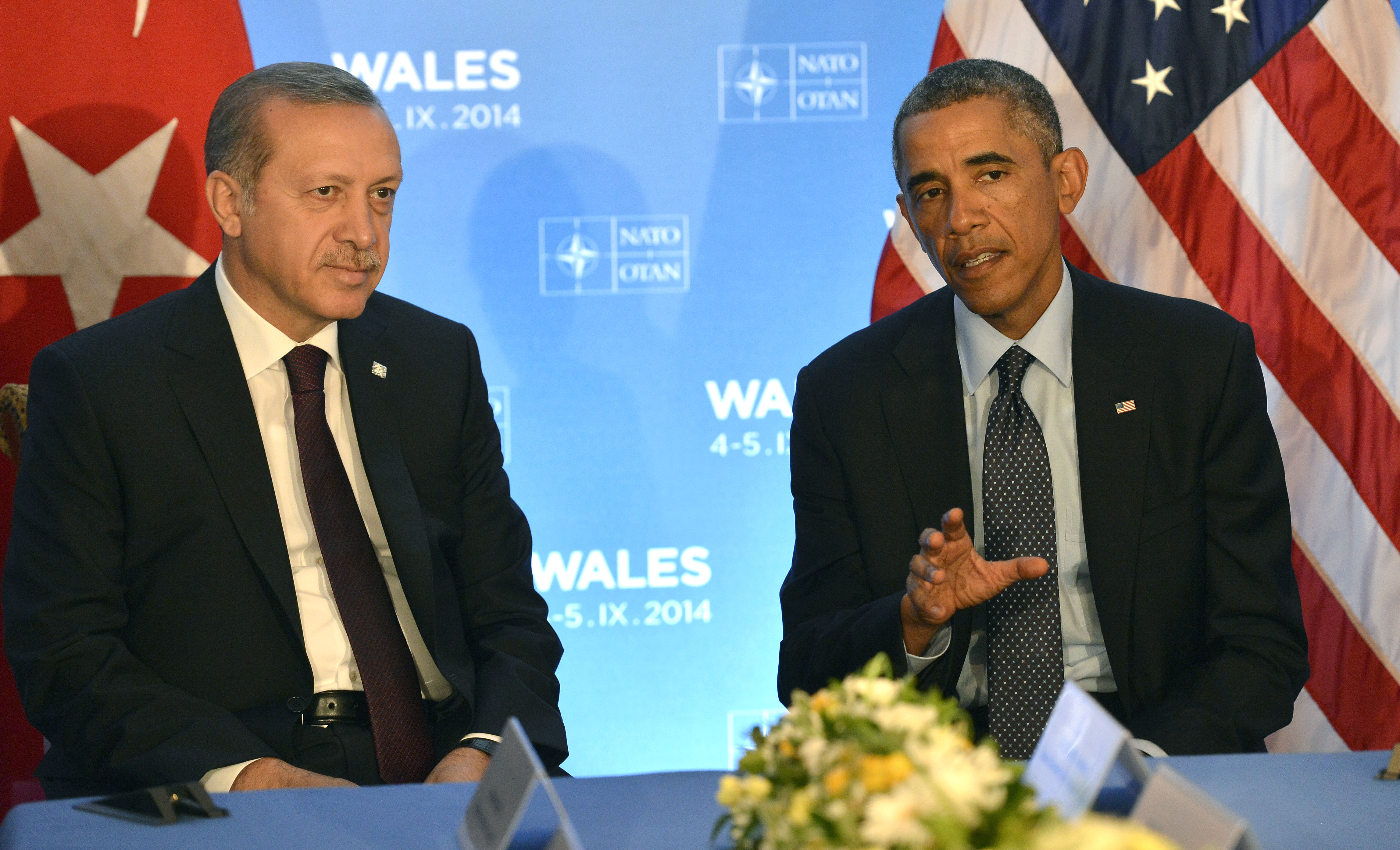 President Barack Obama hosts a meeting with President of Turkey Recep Tayyip Erdoğan during the NATO summit held in Newport, Wales, September 5, 2014. Secretary of Defense Chuck Hagel, attended the meeting (not pictured). DoD Photo by Glenn Fawcett (Released)